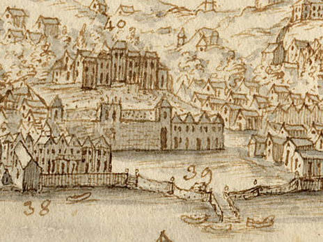 Belém Palace, in Vista e perspectiva da Barra, Costa e Cidade de Lisboa by Bernardo de Caula, 1763.